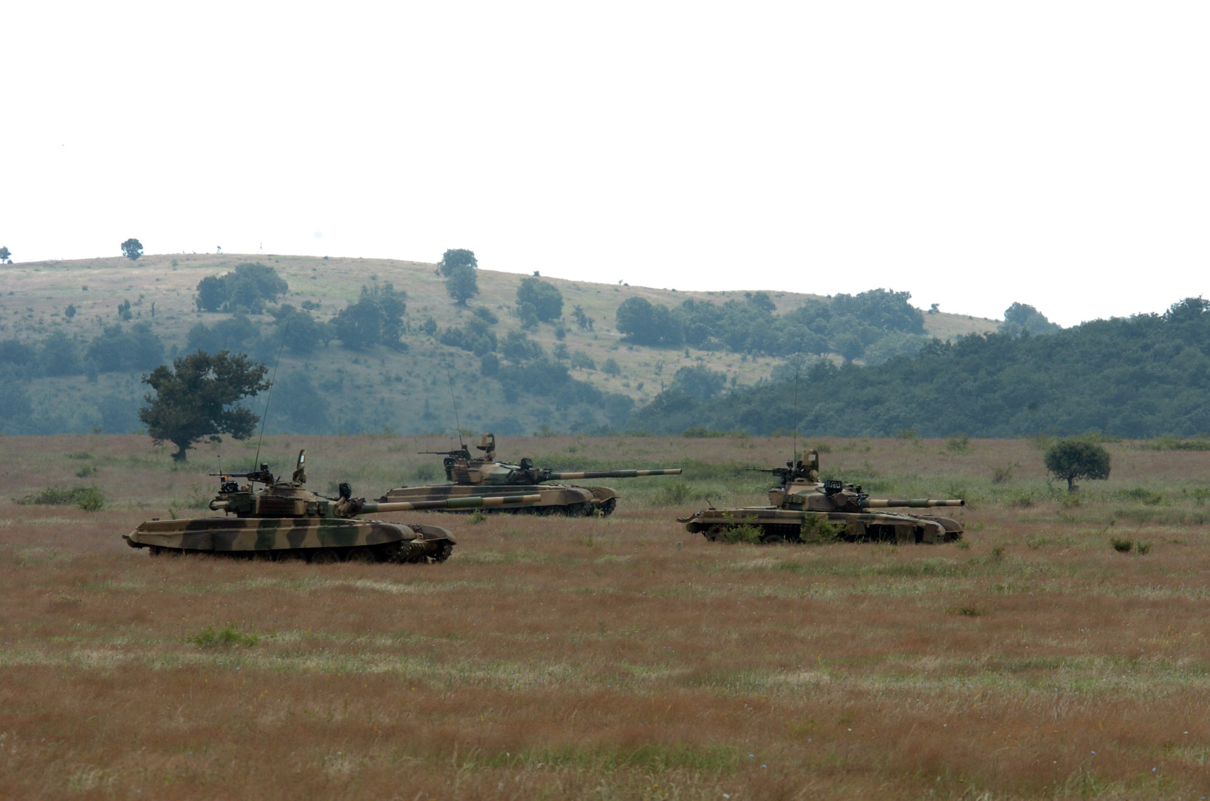 Three T-72 Main Battle Tanks move forward to attack the OPFOR during a movement to contact during joint exercise Immediate Response at Novo Selo Training Area, Bulgaria.